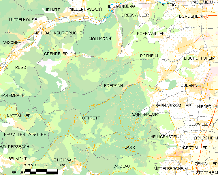 Map of French municipality